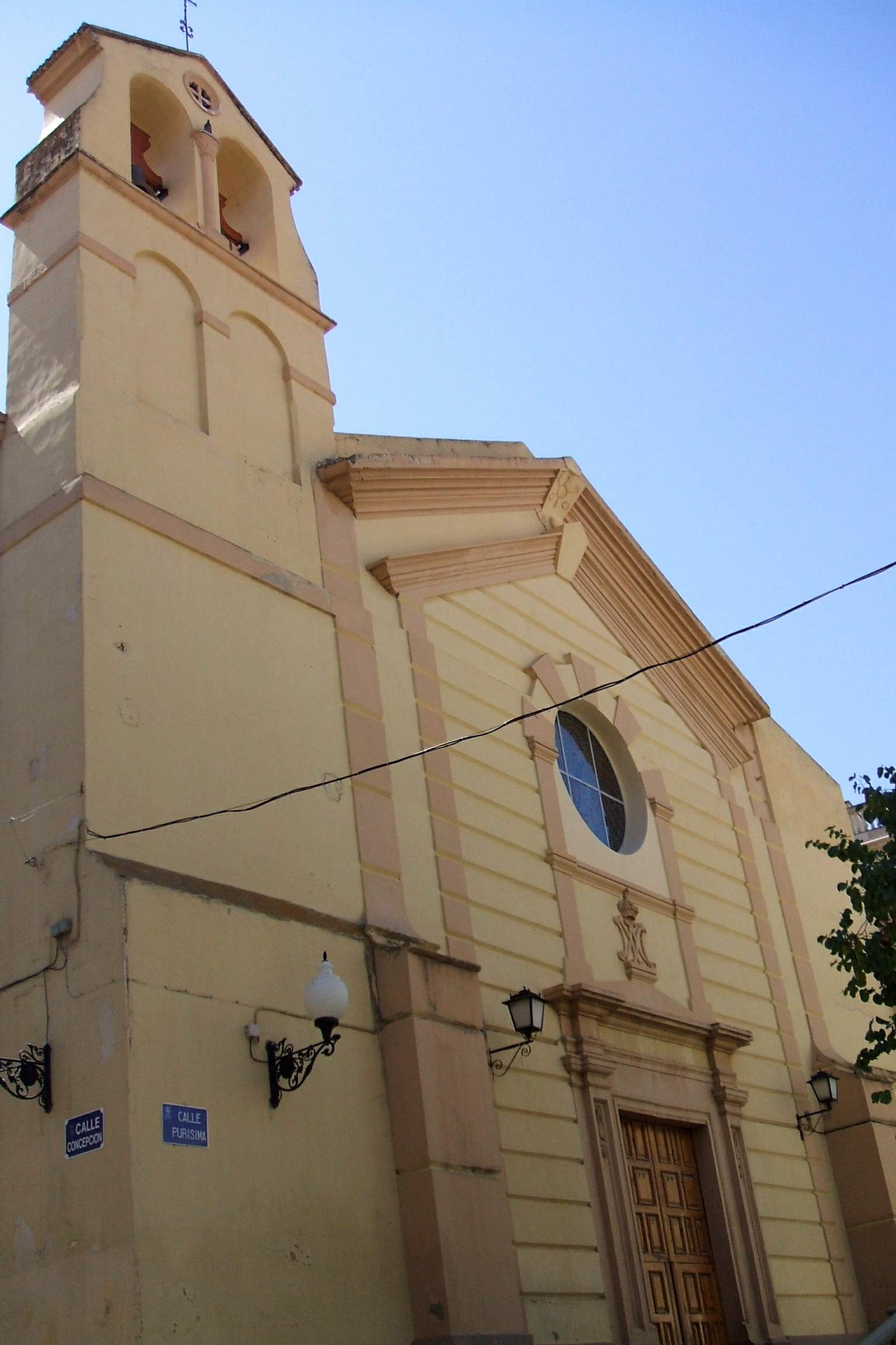 Fachada de la iglesia de la Purísima, en Albacete (Castilla-La Mancha, España)